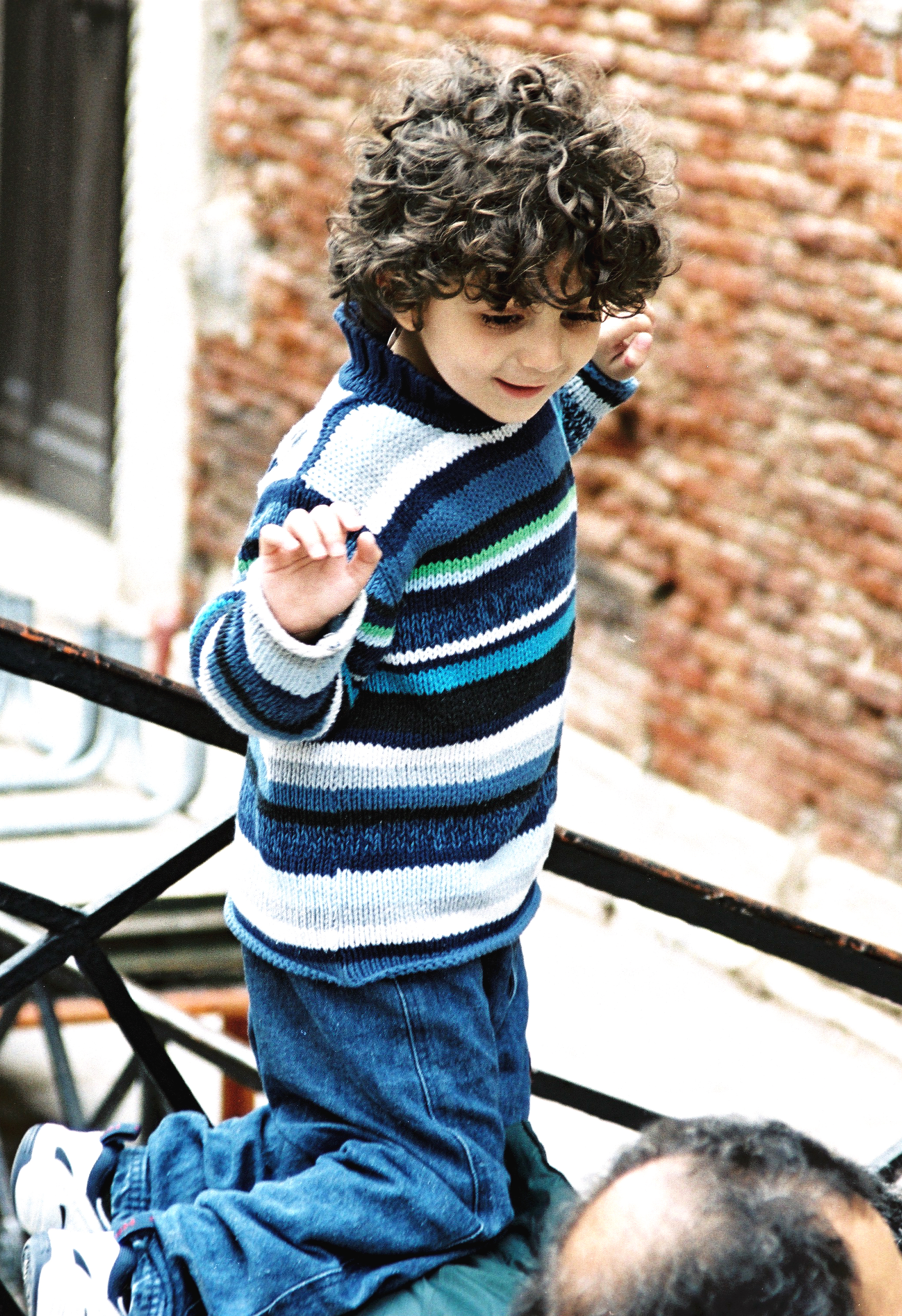 Boy balancing on an adults backpack on a bridge in Venice (Italy). Summer 2002